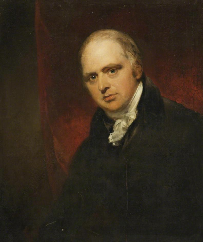 Oil on canvas, 74.3 x 62.3 cm Collection: Gloucester Museums Service Art Collection Head and shoulders portrait of the Rev. Daniel Lysons (1762-1834), brother of the famous antiquary Samuel Lysons. Rev. Daniel Lysons was a topographer and Rector of Todmarton.